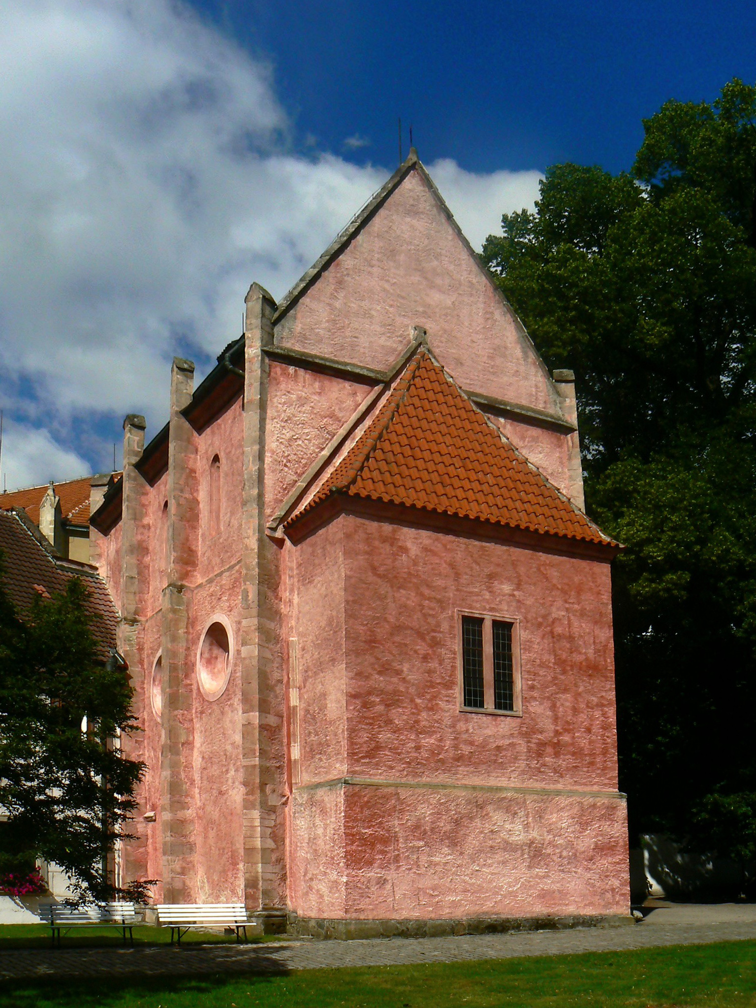 Guardian Angels Chapel, Zlatá Koruna monastery, Czech Republic Česky: Kaple andělů strážných v klášteře Zlatá Koruna